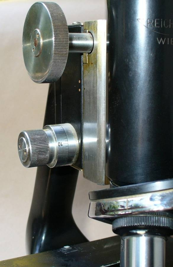 Microscope.